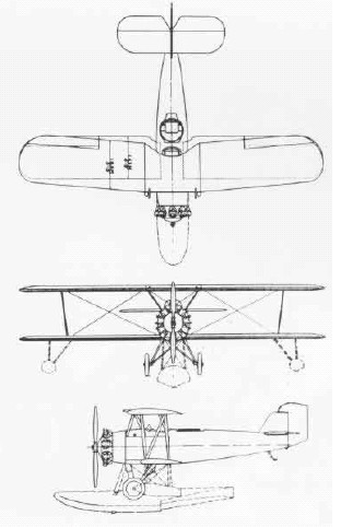 Drawing of a Vought O2U-1 Corsair plane.